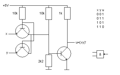 NAND Gate